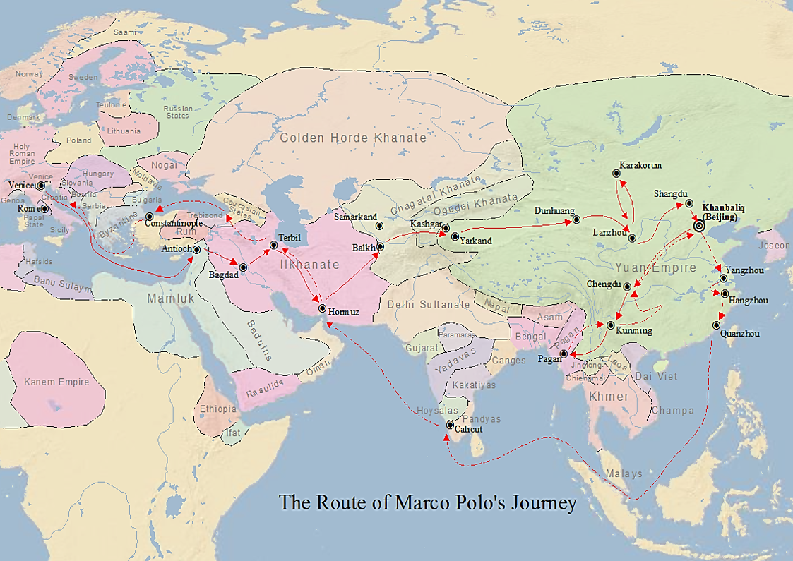 The route of Marco Polo's journey to the east